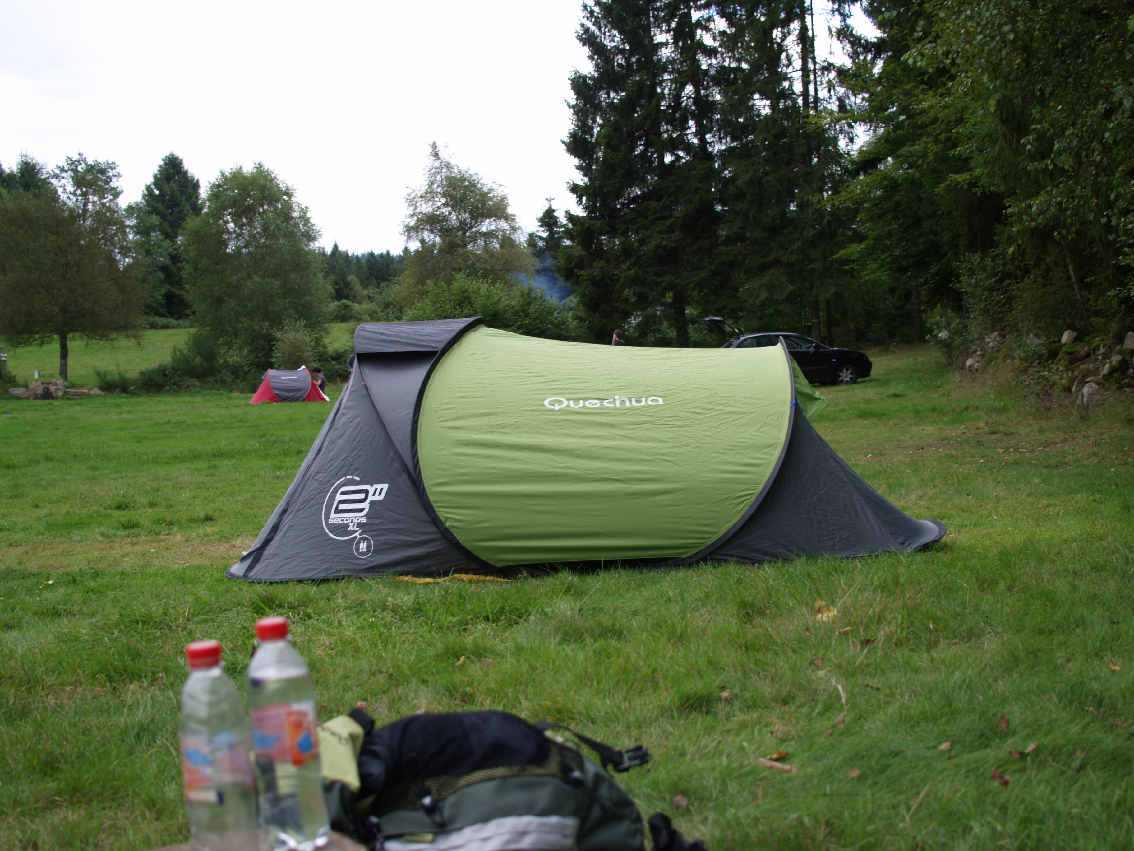 A Decathlon 2" XL tent